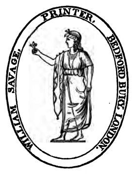 This is the logo of William Savage, printer